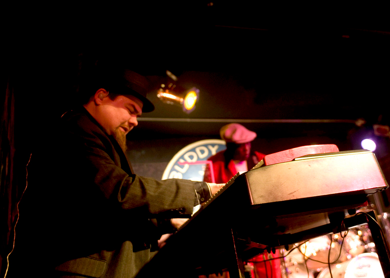 Marty Sammon